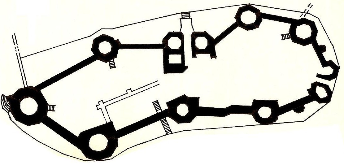 Plan of Caernarvon Castle